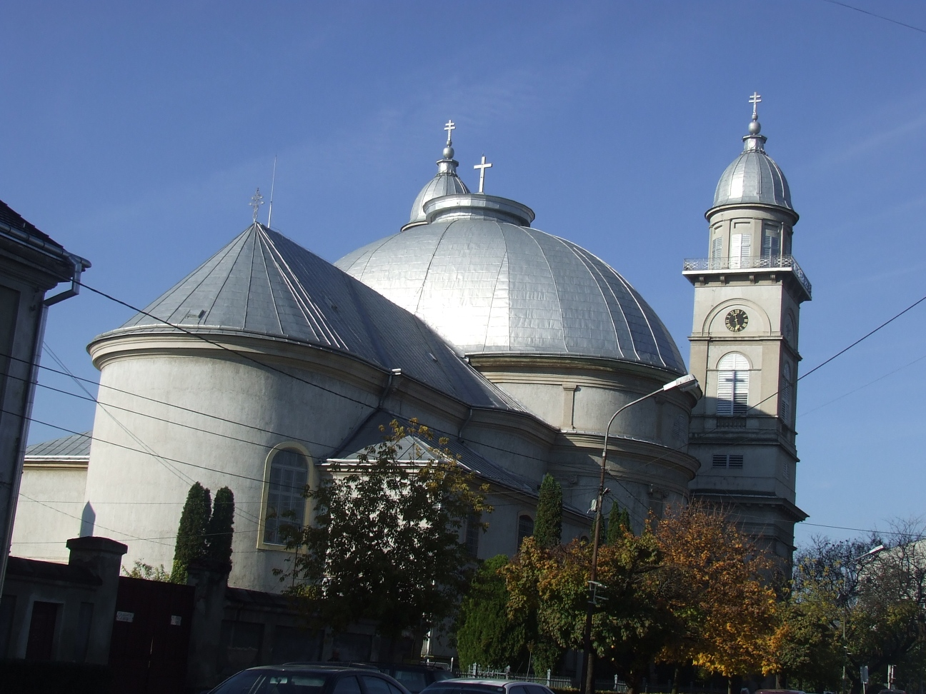 Church in Satu Mare, Romania